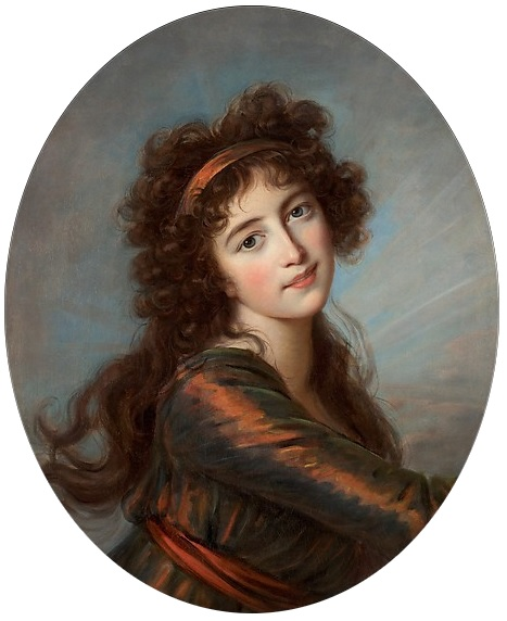 Princess Karoline Felicitas Engelberte, Princess von Liechtenstein, née Countess von Manderscheidt-Blankenheim